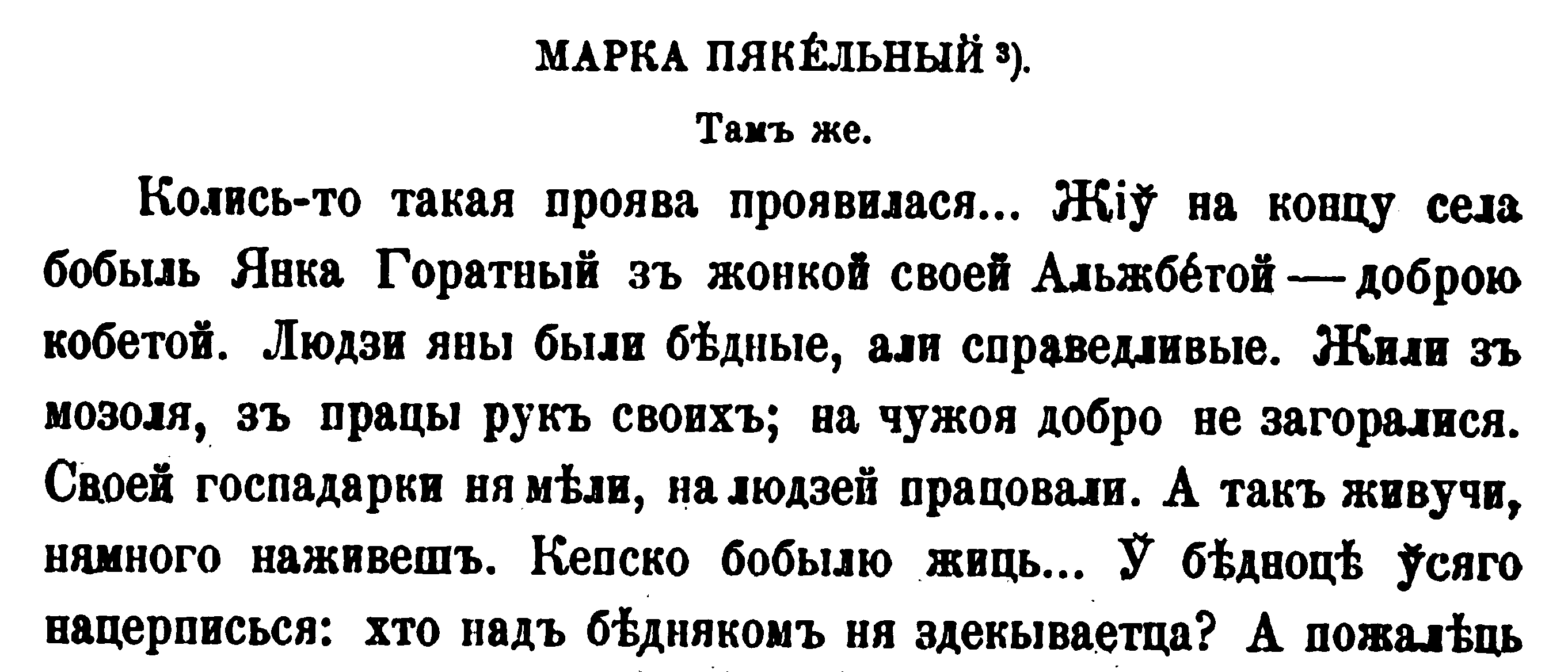 The first lines of the Belarusian legend 'Marka of the Hell', as told by Ruzala Aśmak, recorded by Adam Bahdanovič, and published by Pavel Shejn in 1893.